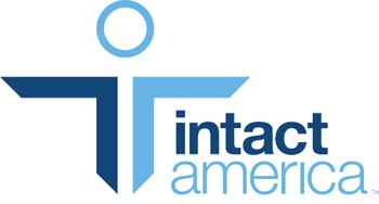 Intact America logo.